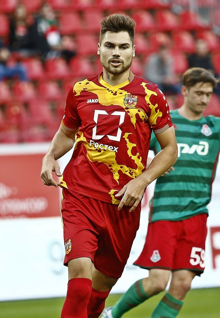 Maksim Belyaev with FC Arsenal Tula in a game against FC Lokomotiv Moscow.